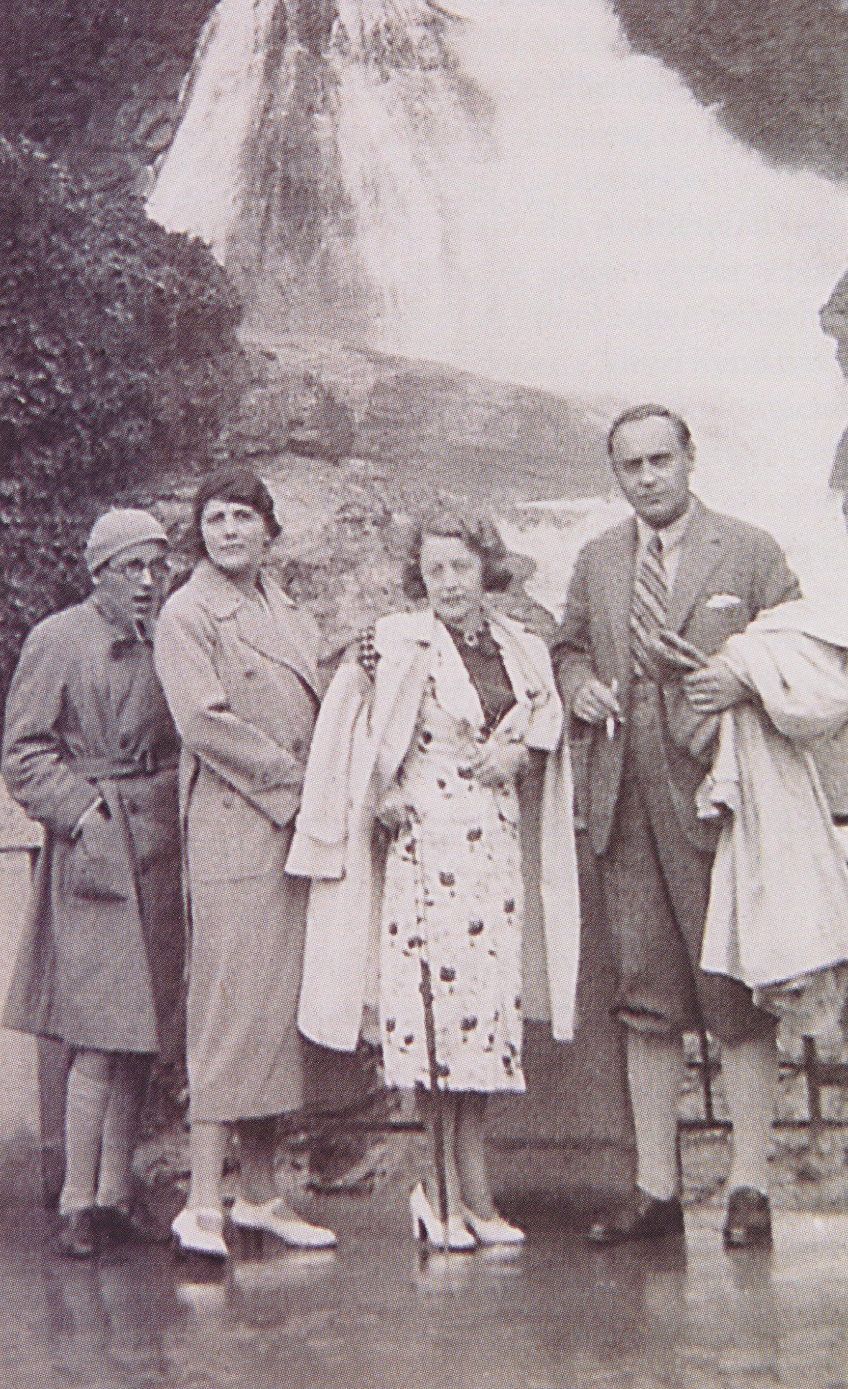 Ferenc Szálasi, leader of the Arrow Cross Party (right) is on vacation with his fiancee, Gizella Lutz in Germany around 1940